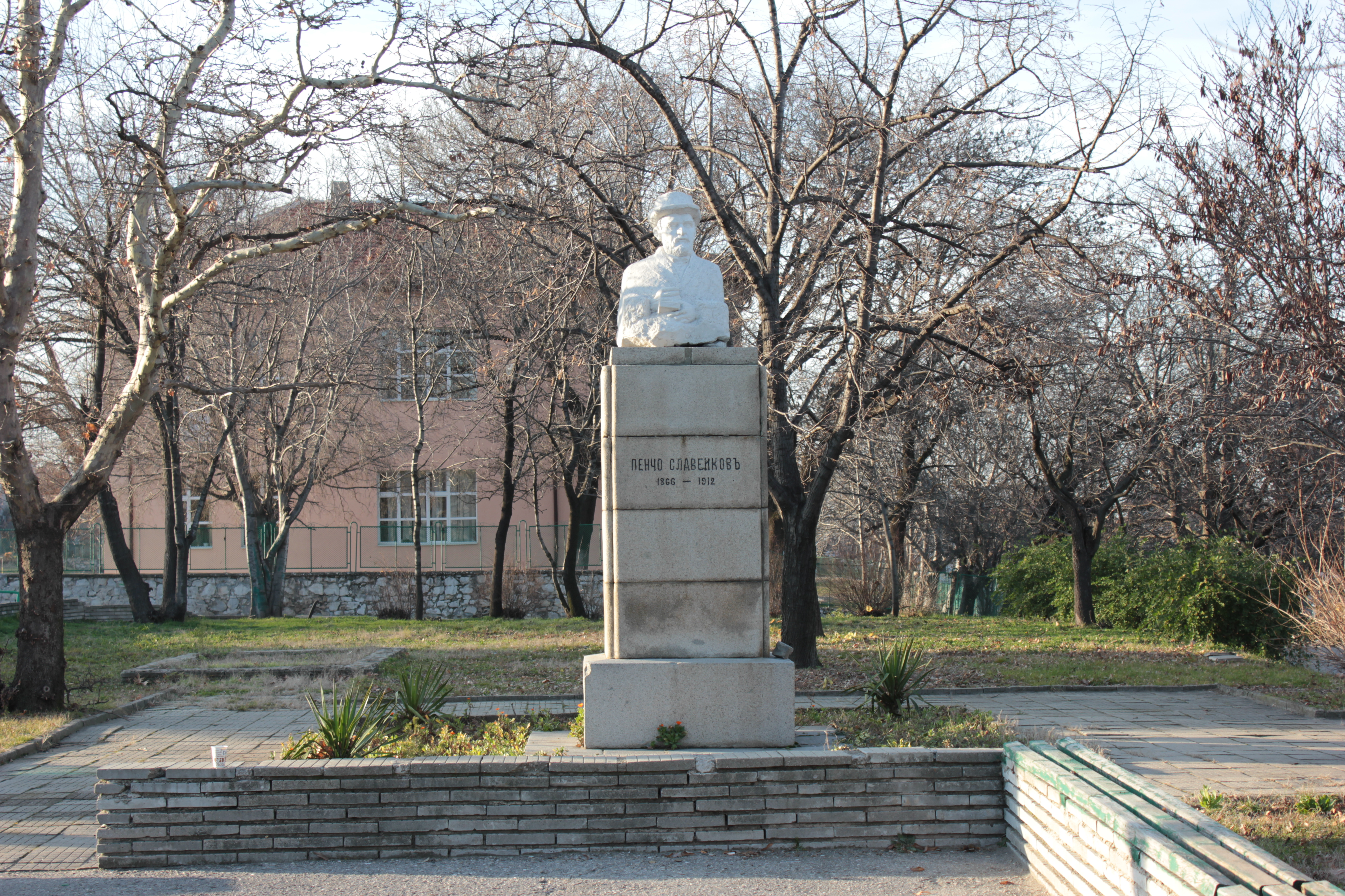 Belashtitsa school Pencho Slaveykov and the statue of Pencho Slaveykov in front of the school